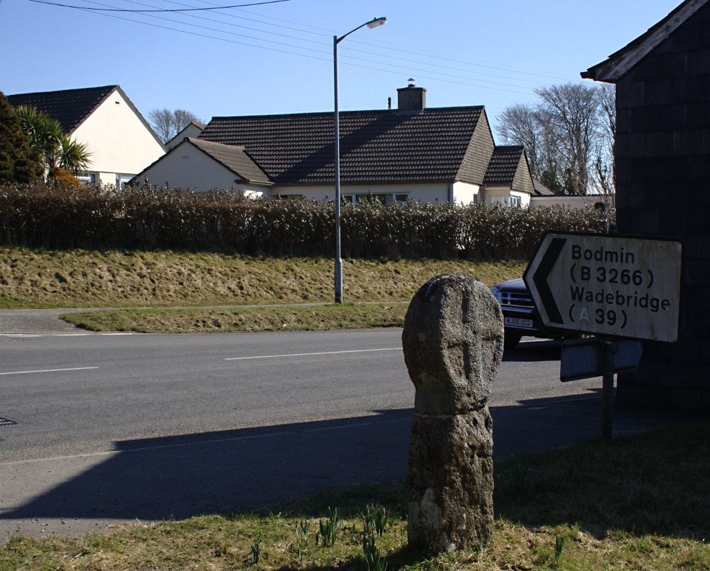 A Stone Cross. This small stone cross sits at a road junction on the outskirts of Camelford.